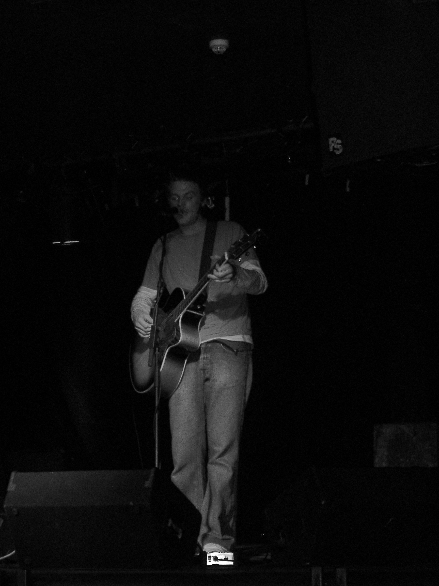 Rob Smith performing at Eamonn Dorans in 2005